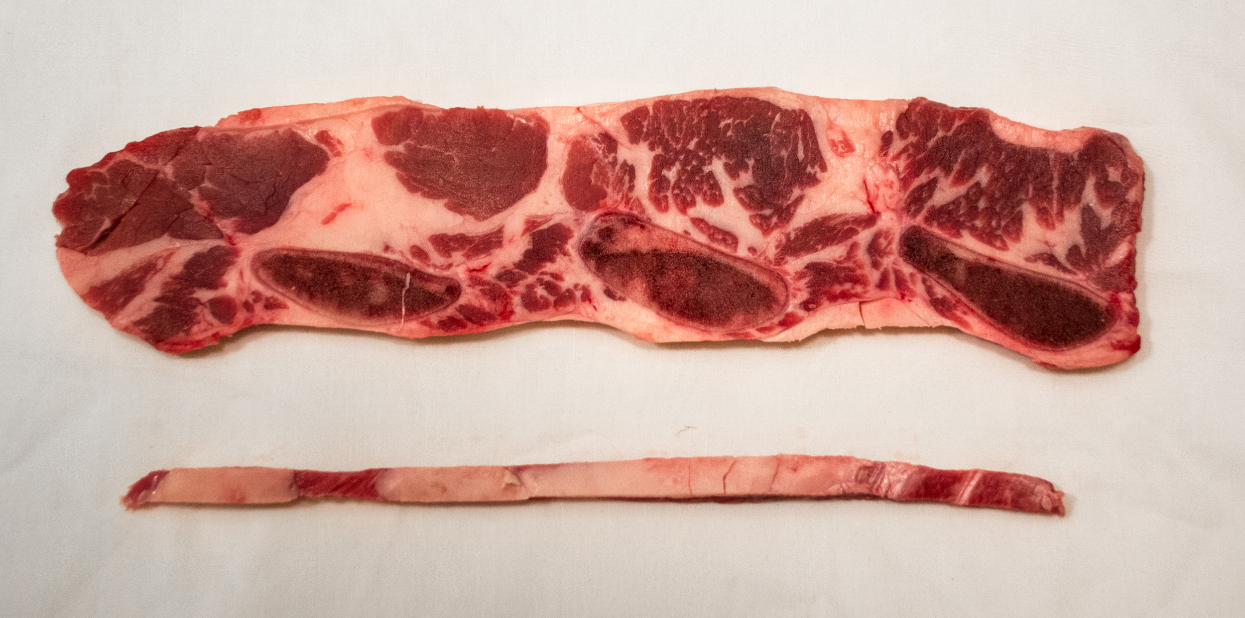 A flanken cut beef short rib, show in cross-section and from above. The rib bones are clearly visible in the upper image.